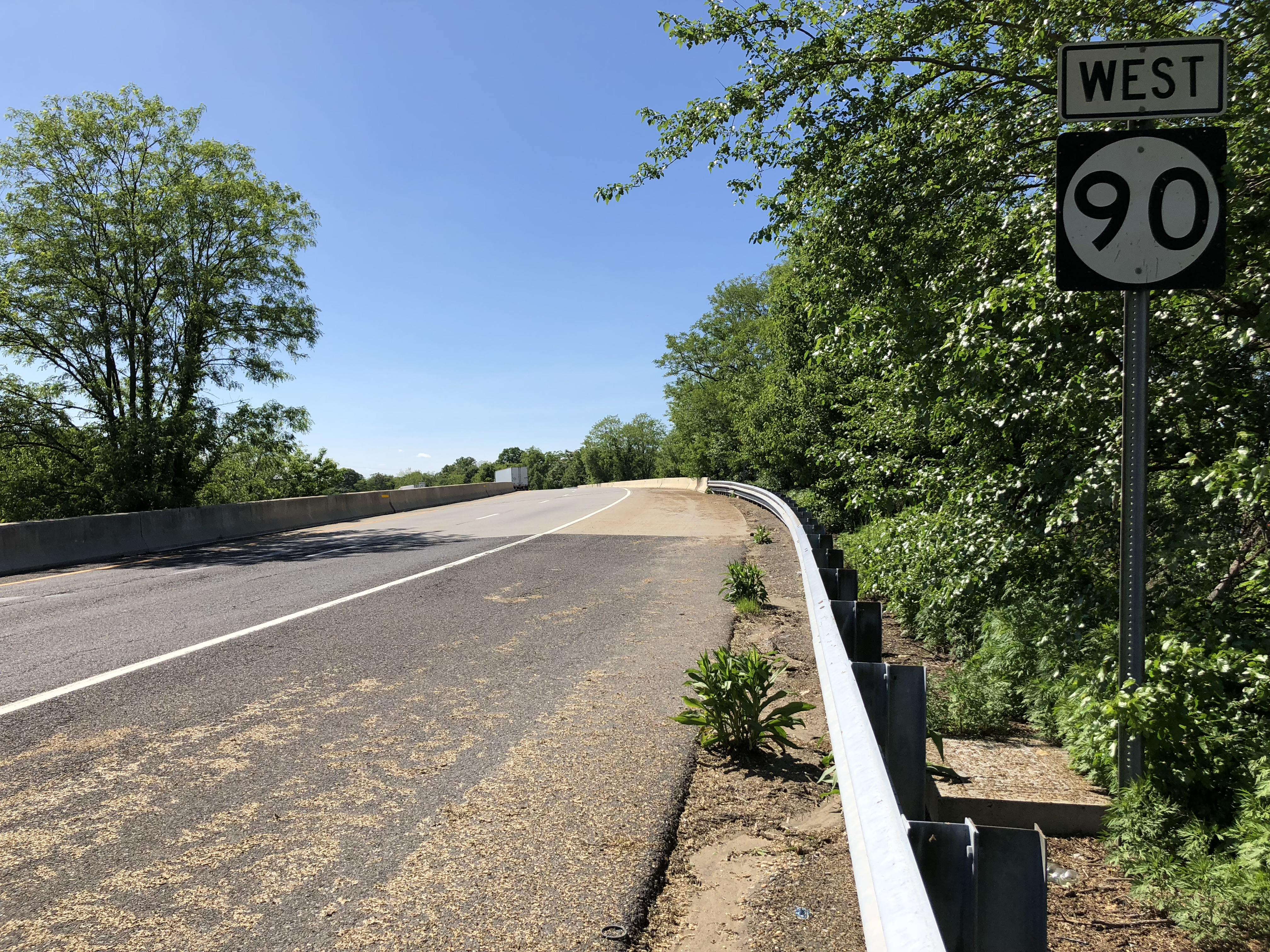 View west along New Jersey State Route 90 just west of New Jersey State Route 73 in Cinnaminson Township, Burlington County, New Jersey